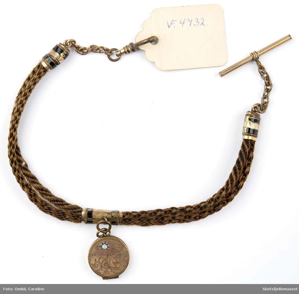 A watch chain made from human hair, with a medal end locks from guilded metal. Owned by the Norwegian museum Slottsfjellmuseet